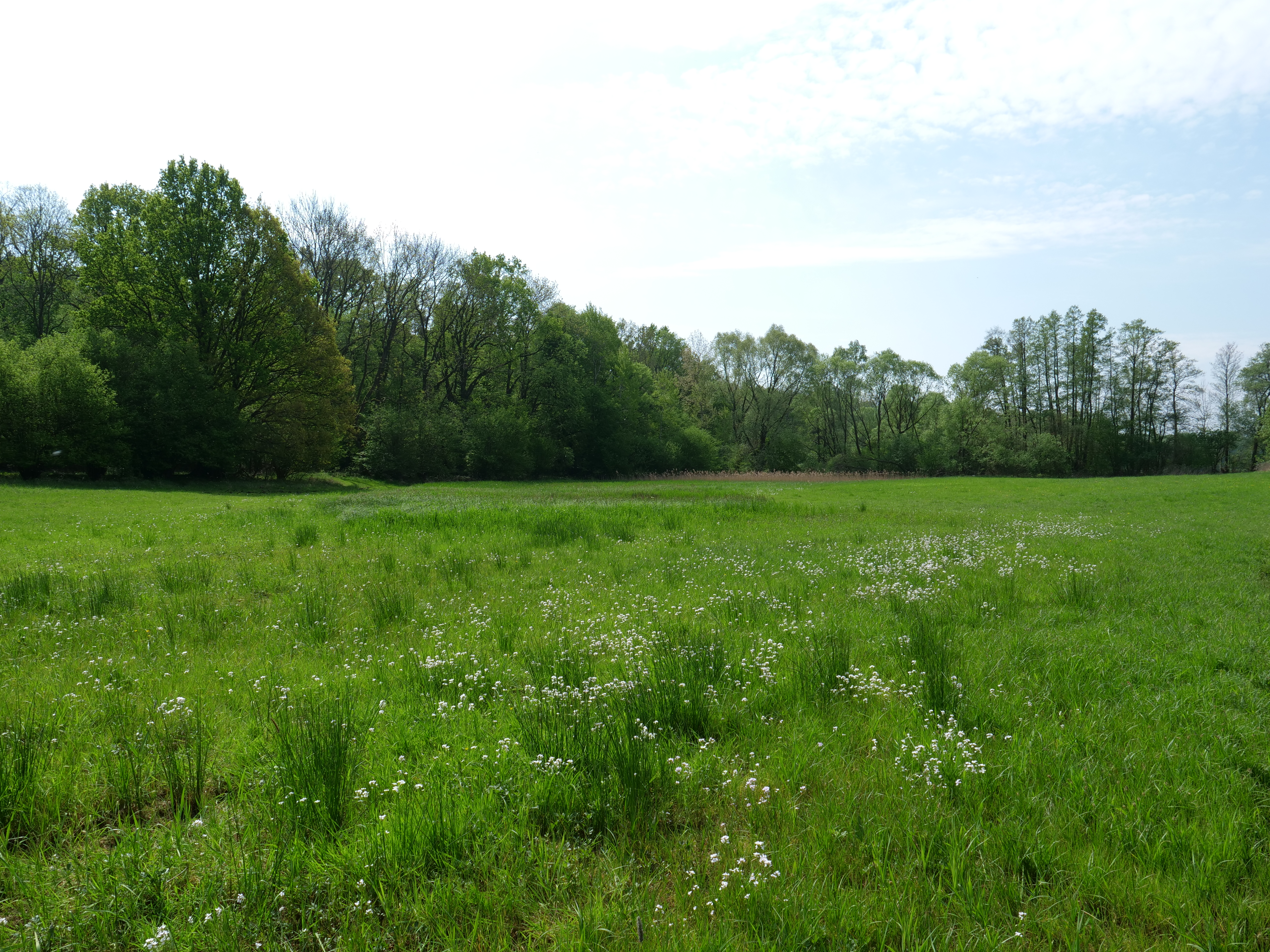 Wetmeadow in the Eiskeller(Berlin-Spandau) in spring. NSG-46